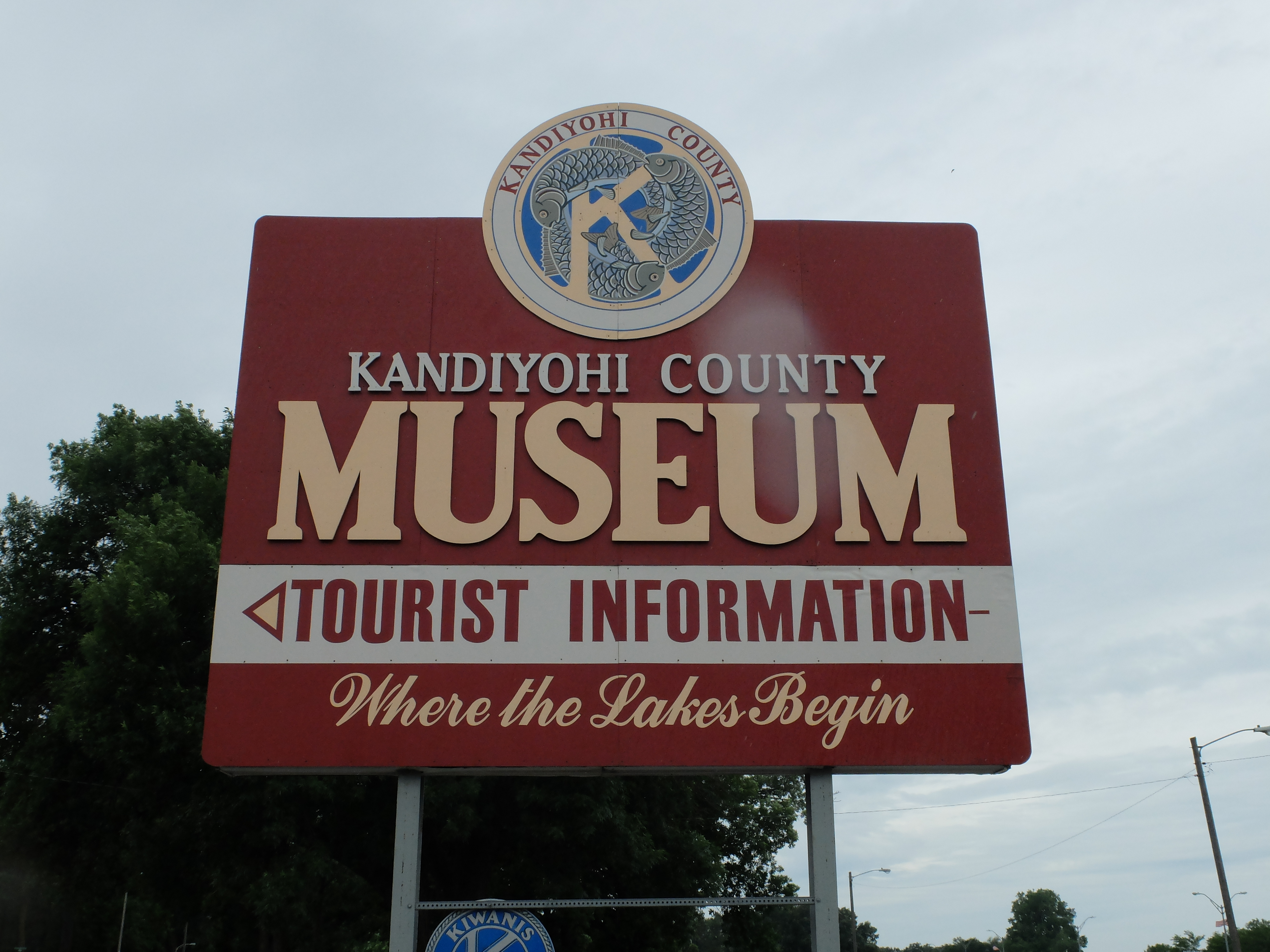 Sign outside of the Kandiyohi County Historical Society, reading 'Kandiyohi County Museum: Where the Lakes Begin.'